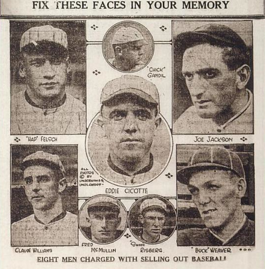 "Fix these faces in your memory": A cartoon ran by various newspapers in 1920 after the breaking of the Black Sox Scandal (as stated by the source). The printing on The Sporting News (October 7, 1920) is available through for its subscribers.